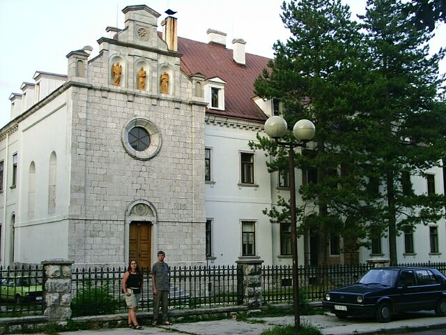 Former italian embassy in Cetinje, Montenegro